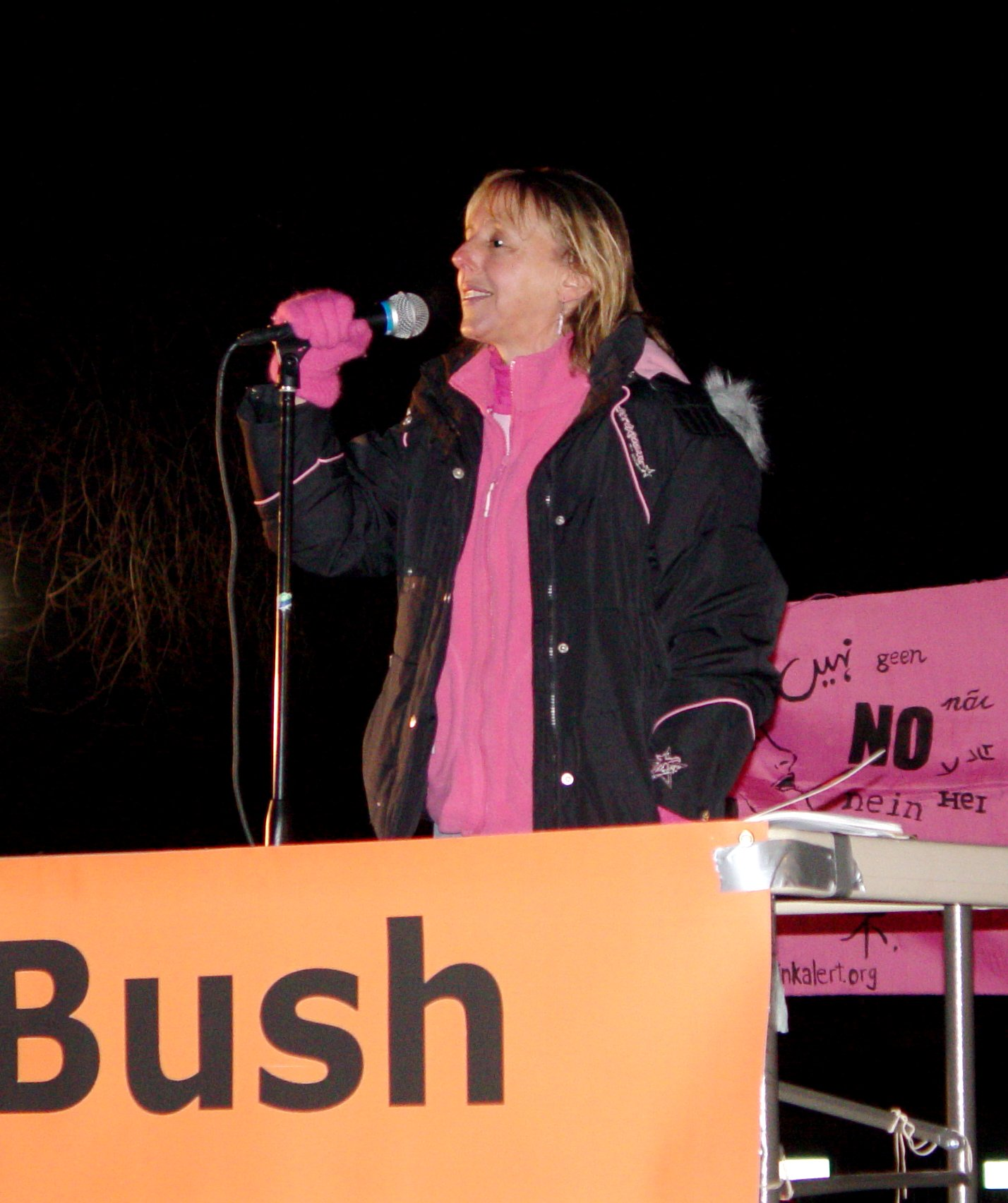 Medea Benjamin of Code Pink speaks at a protest during the 2007 State of the Union Address in Washington DC on January 23, 2007. Photo by Ben Schumin.